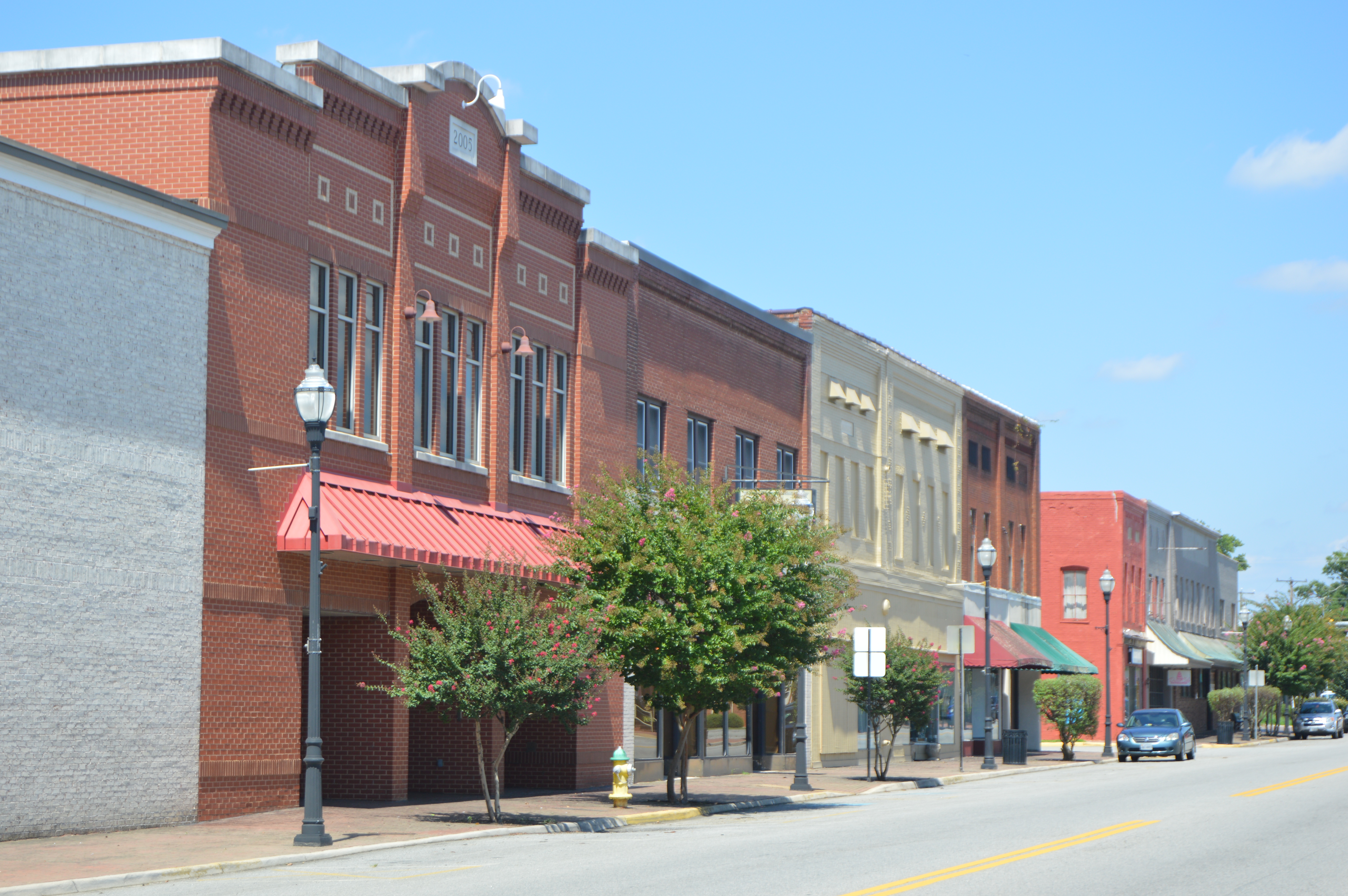 Buildings on the western side of Main Street (State Route 49) at Walker Street in central Chase City, Virginia, United States.